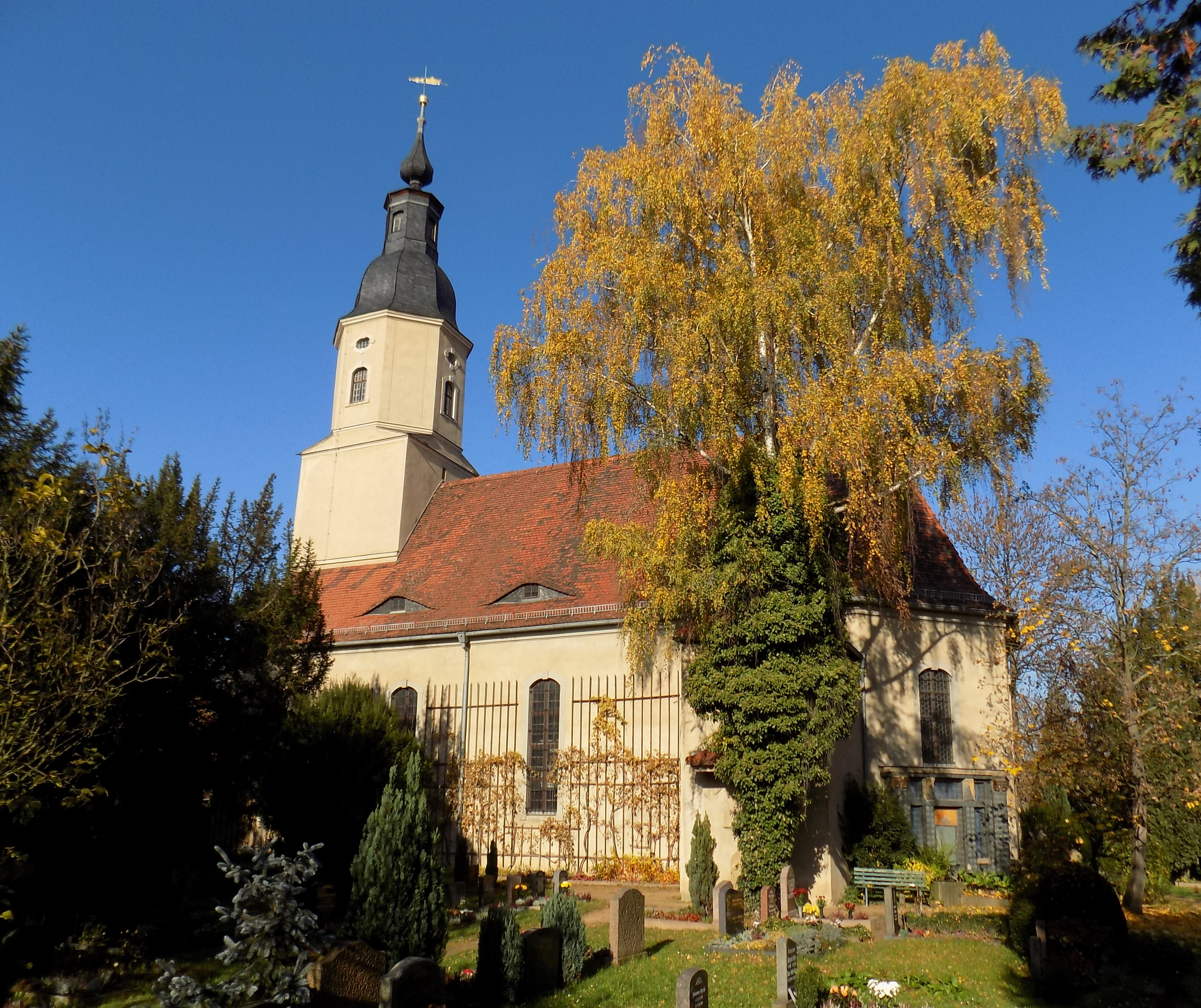 St. Urban's Church in Cölln (Meissen, Saxony)